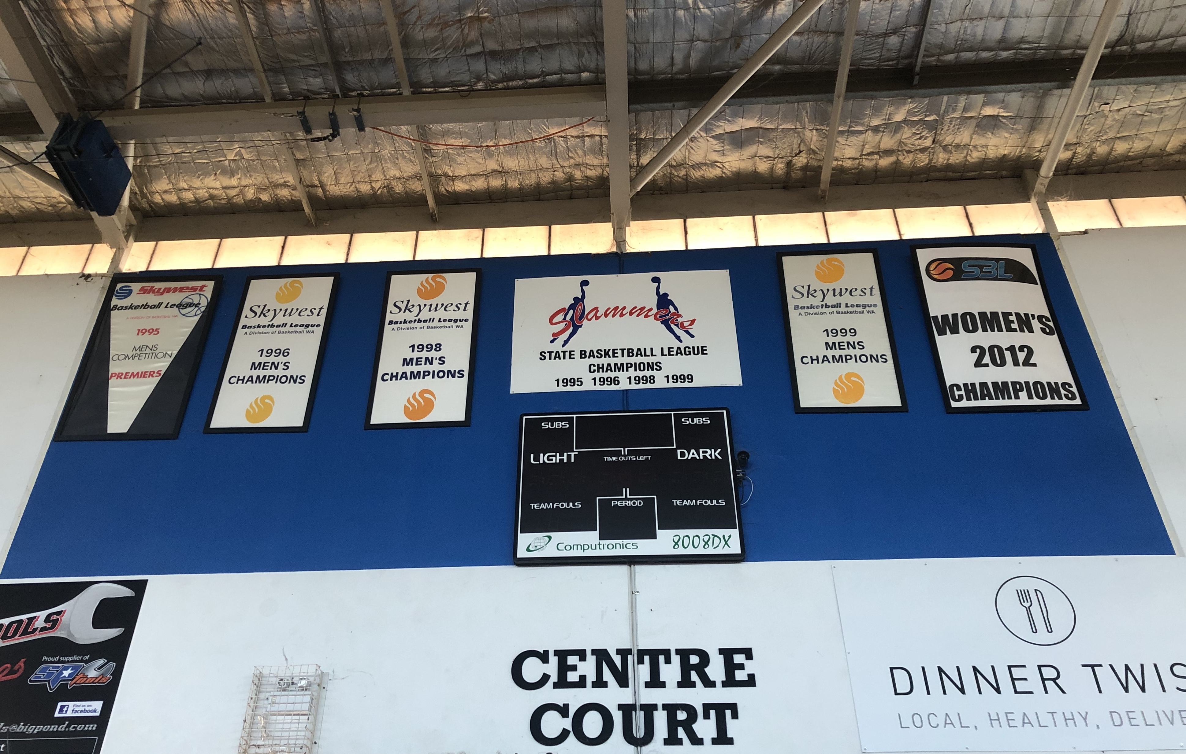 The South West Slammers’ championship banners on display at Eaton Recreation Centre